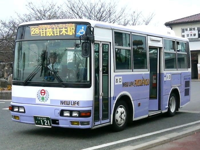 Company:Amagi Kanko Bus Use:transit bus Car license:久留米200か・121 Chassis manufacturer:Mitsubishi Motors Coachbuilder:Mitsubishi FUSO Bus Manufacturing Location:At Amatetsu Amagi Station, in Asakura City, Fukuoka, Japan.